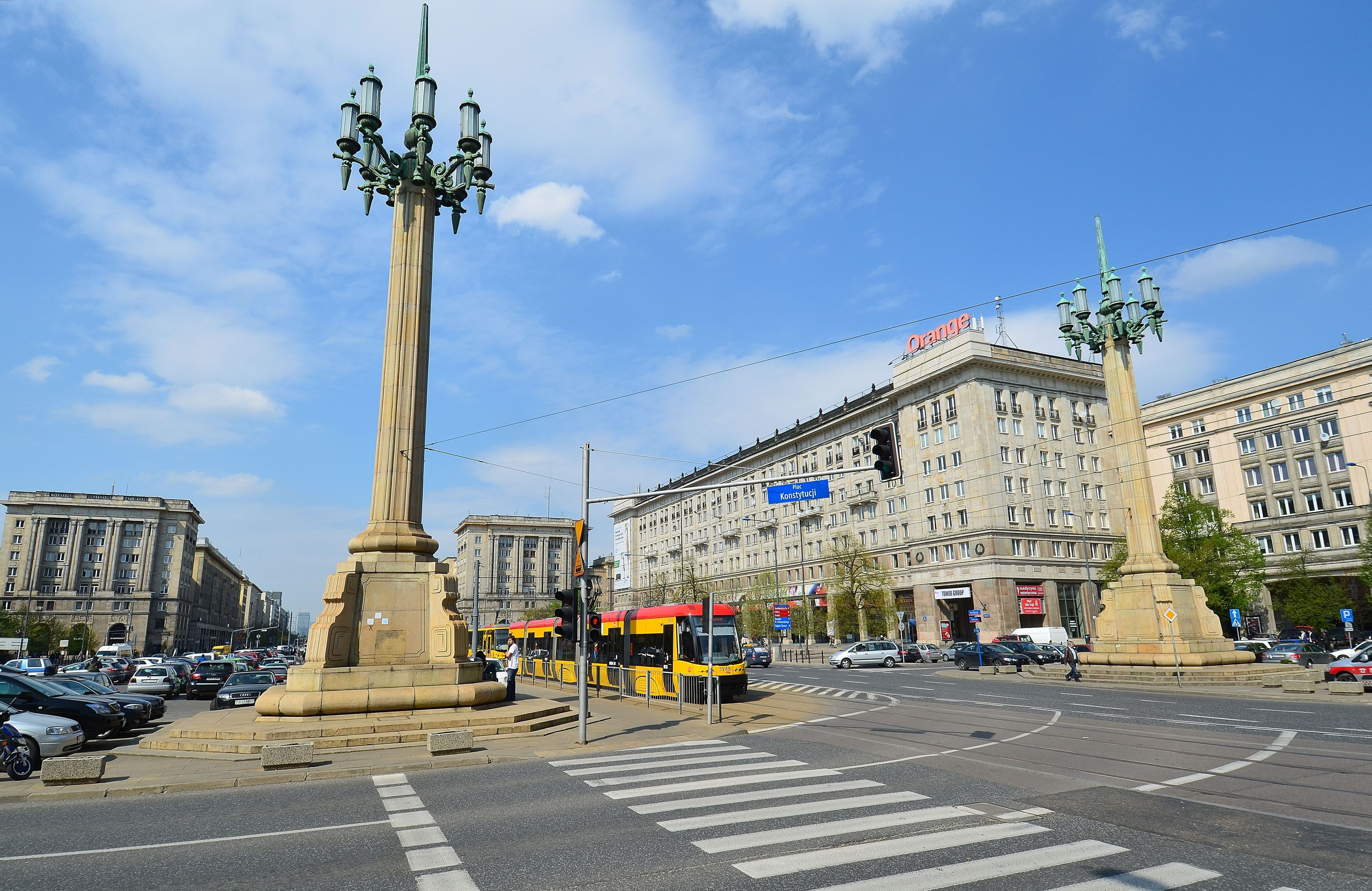 Constitution Square in Warsaw